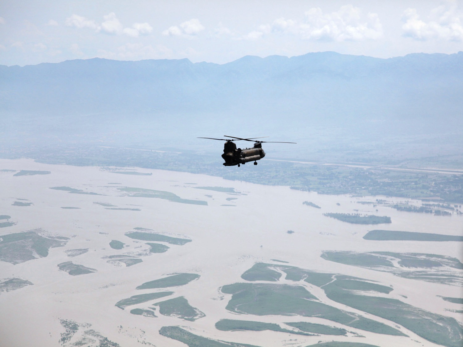 A U.S. Army CH-47 Chinook helicopter flies over a flood-affected area of Pakistan on a return flight from delivering humanitarian assistance and evacuating personnel in the town of Khwazakhela, as part of the flood recovery effort in Khyber Pakhtunkhwa province, Pakistan, August 11th, 2010.